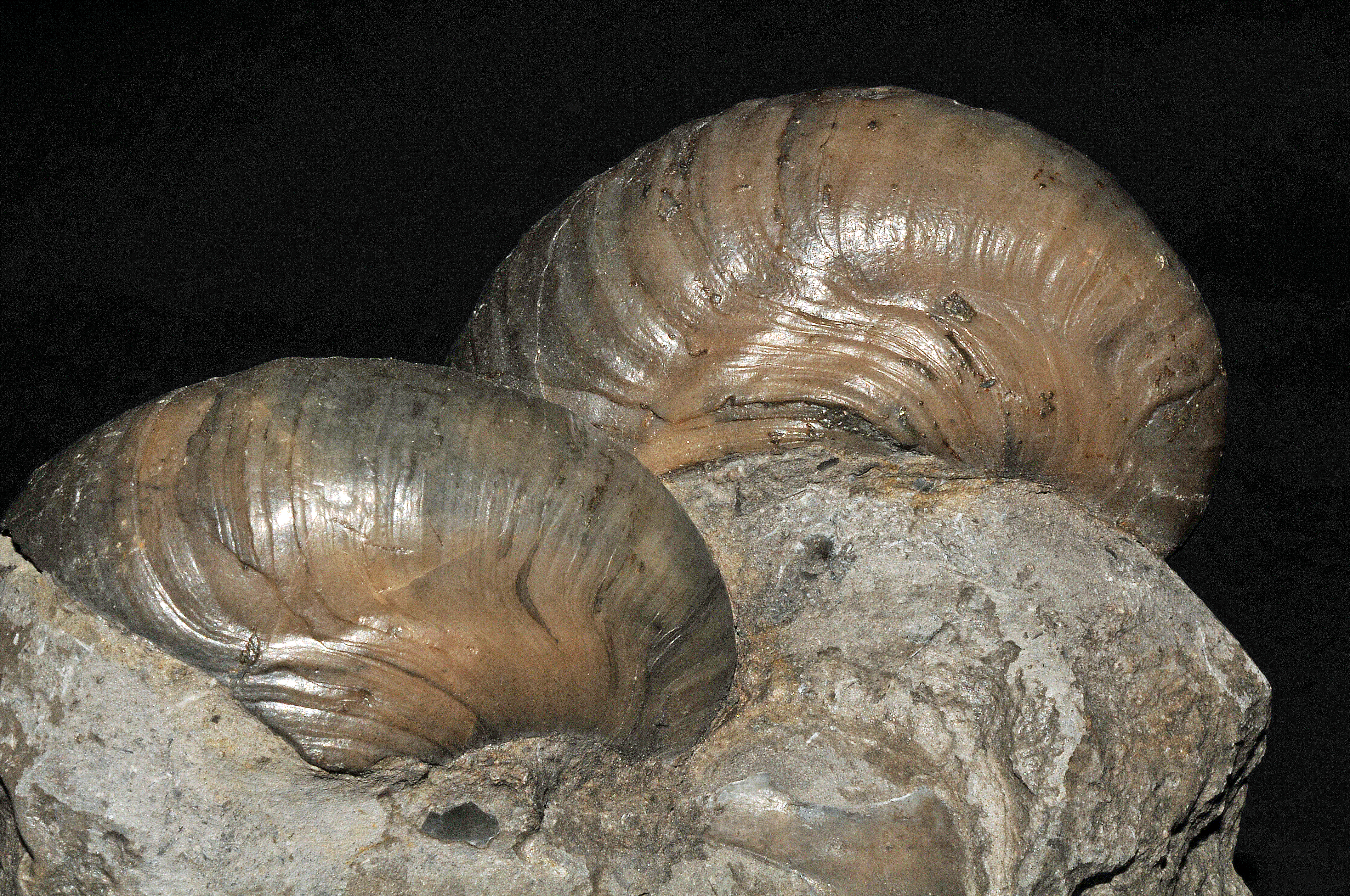 Gryphaea arcuata Lamarck, 1801 (France)